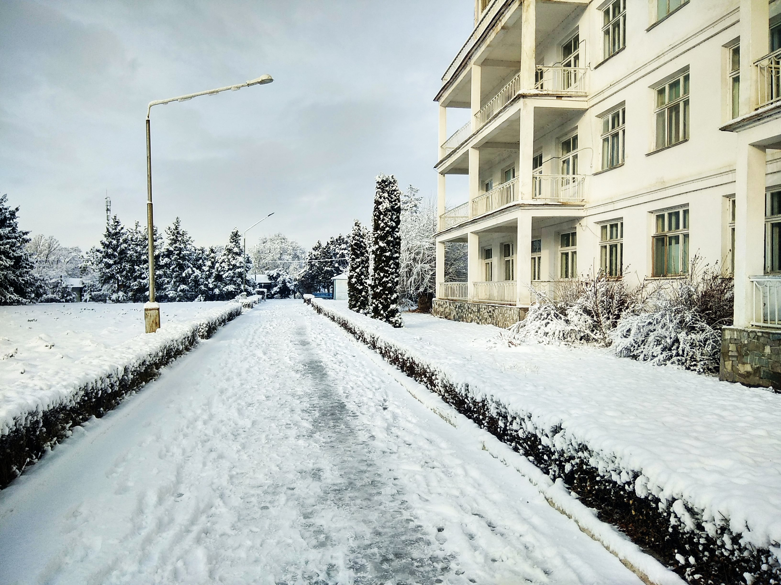 Ism IUK Issyk kul campus Corpus 1